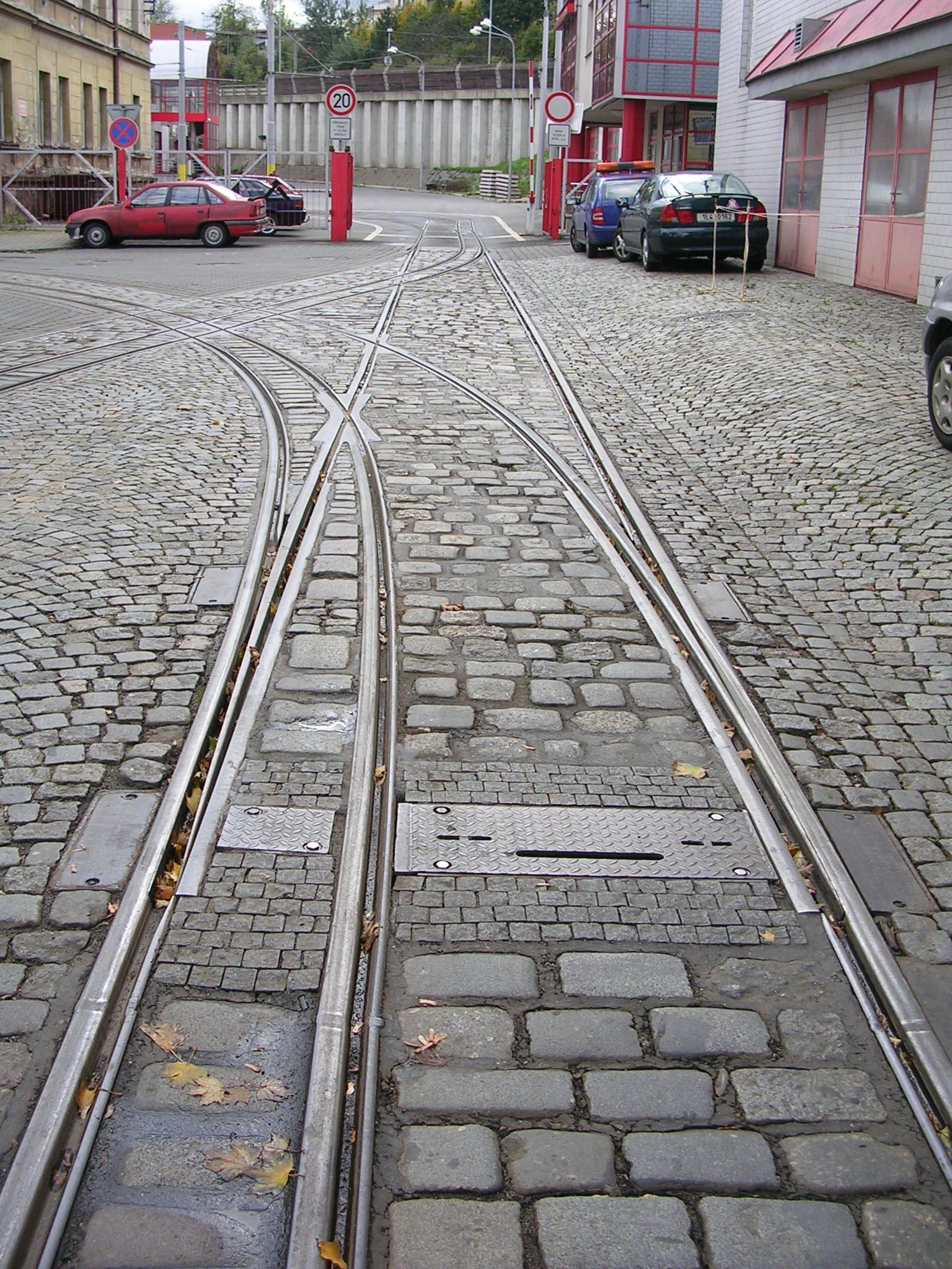 Liberec, Czech Republic. Tram depo entry.